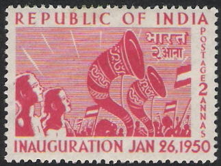 Indian postage stamp, issued to celebrate the Inauguration of the Republic of India. The stamp was created by the Government of India, India Post. It identifies one of the four stamps issued January 26, 1950, and one of the Independence Day and Republic Day stamps of many countries.